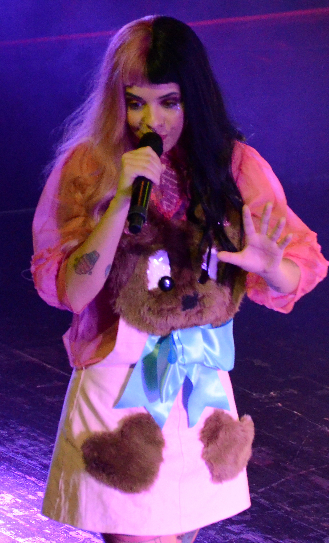 Melanie Martinez on House of Blues, localized in Orlando, Florida, in April 4, 2016.